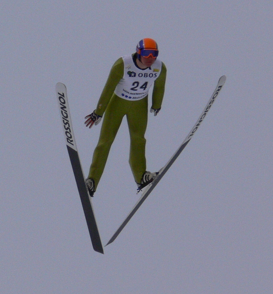 From a Nordic Combined World Cup event in Holmenkollen in 2006